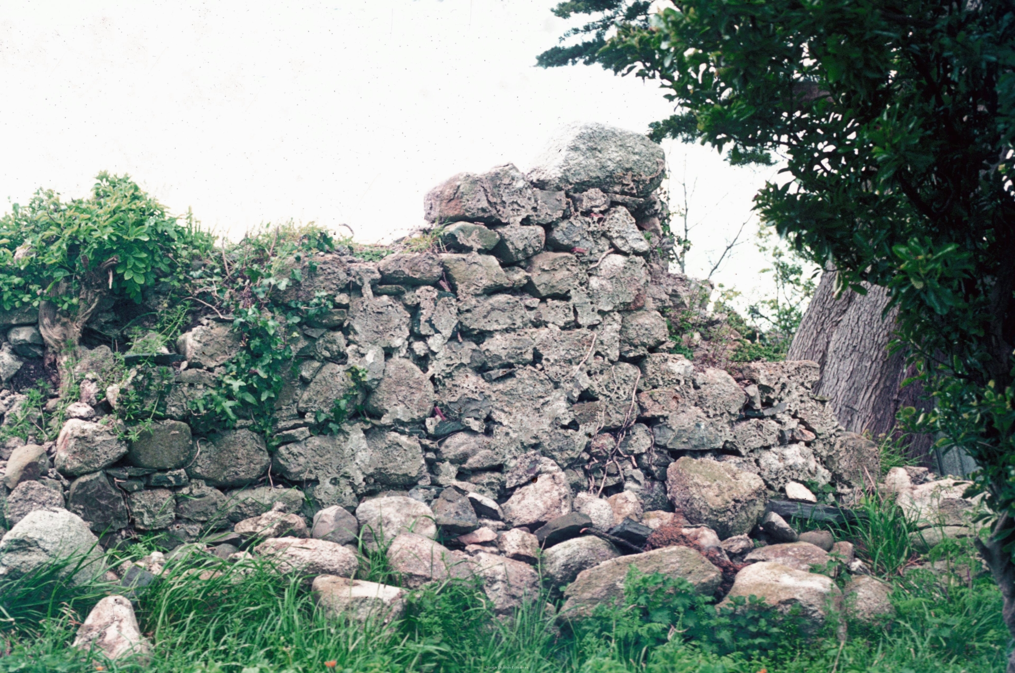 The remains of the church in the old section of Cruagh cemetery. Photo taken in 1977.